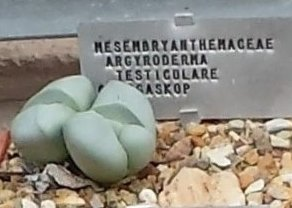 Argyroderma succulents from the Knersvlakte in cultivation in Stellenbosch University nursery